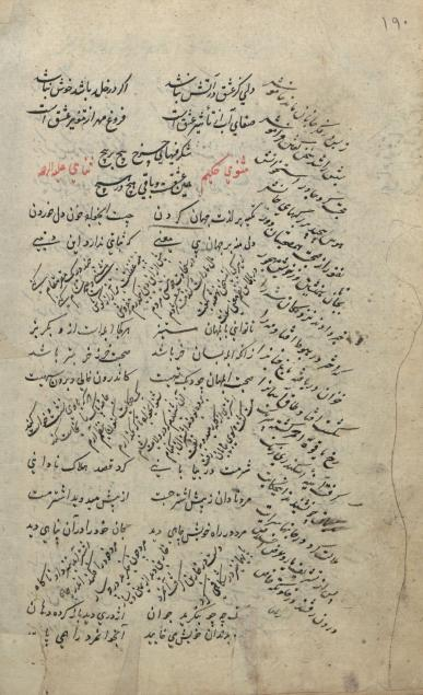 Page of Mathnavi Khosrow and Shirin by Sanjar Kashani more details (in Persian)